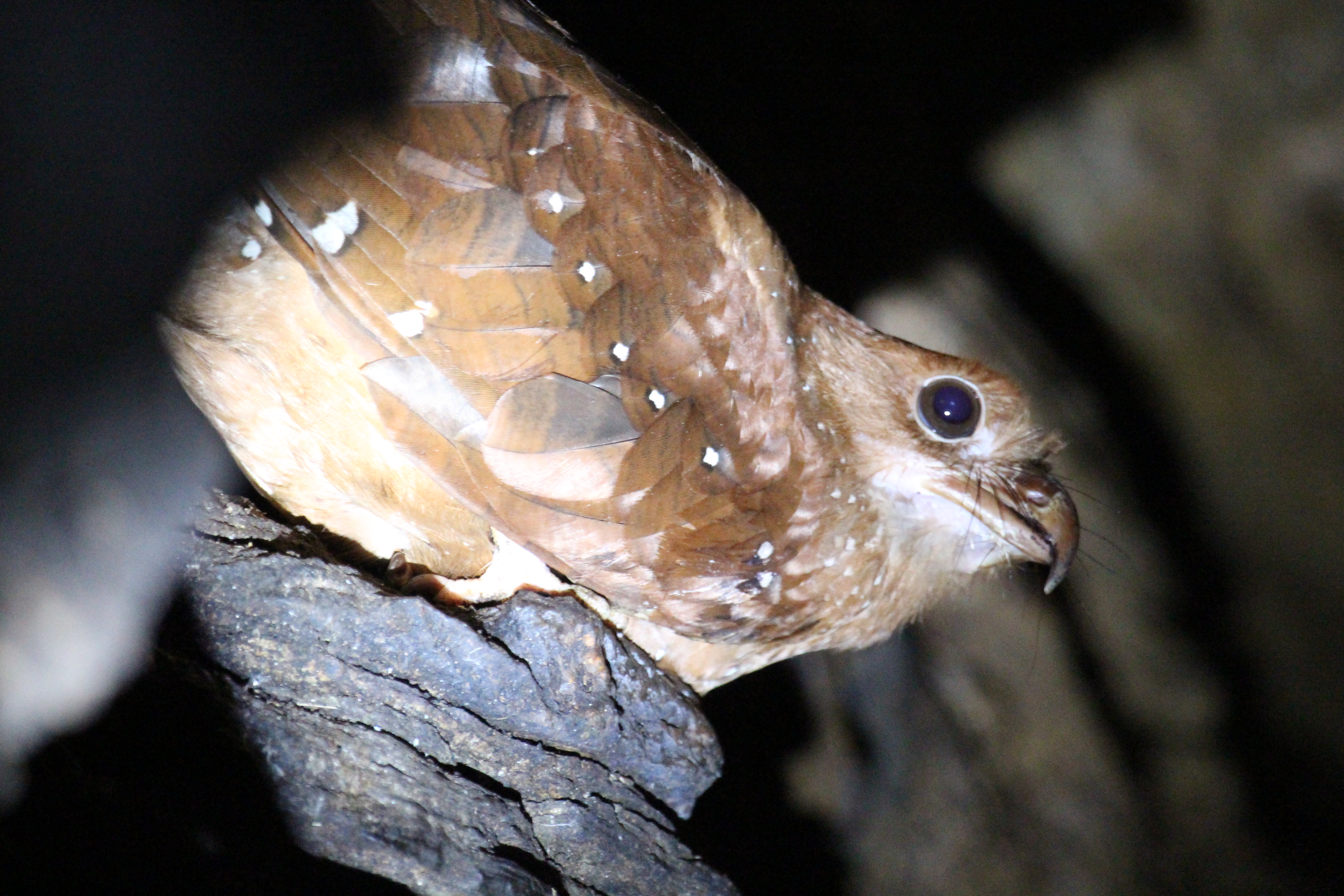 In the Asa Wright Nature Centre caves. This was taken at high ISO on a tripod while the guide shone a torch (briefly) at the roosting bird.